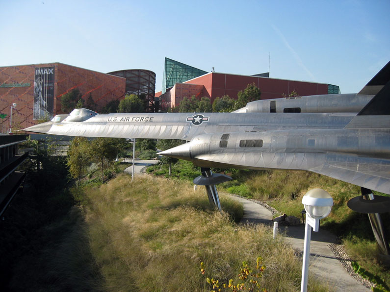 A-12 Blackbird trainer with the California Science Center behind it